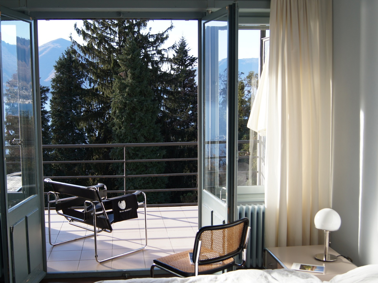 Albergo Monte Verità (hotel): room, balcony, furniture